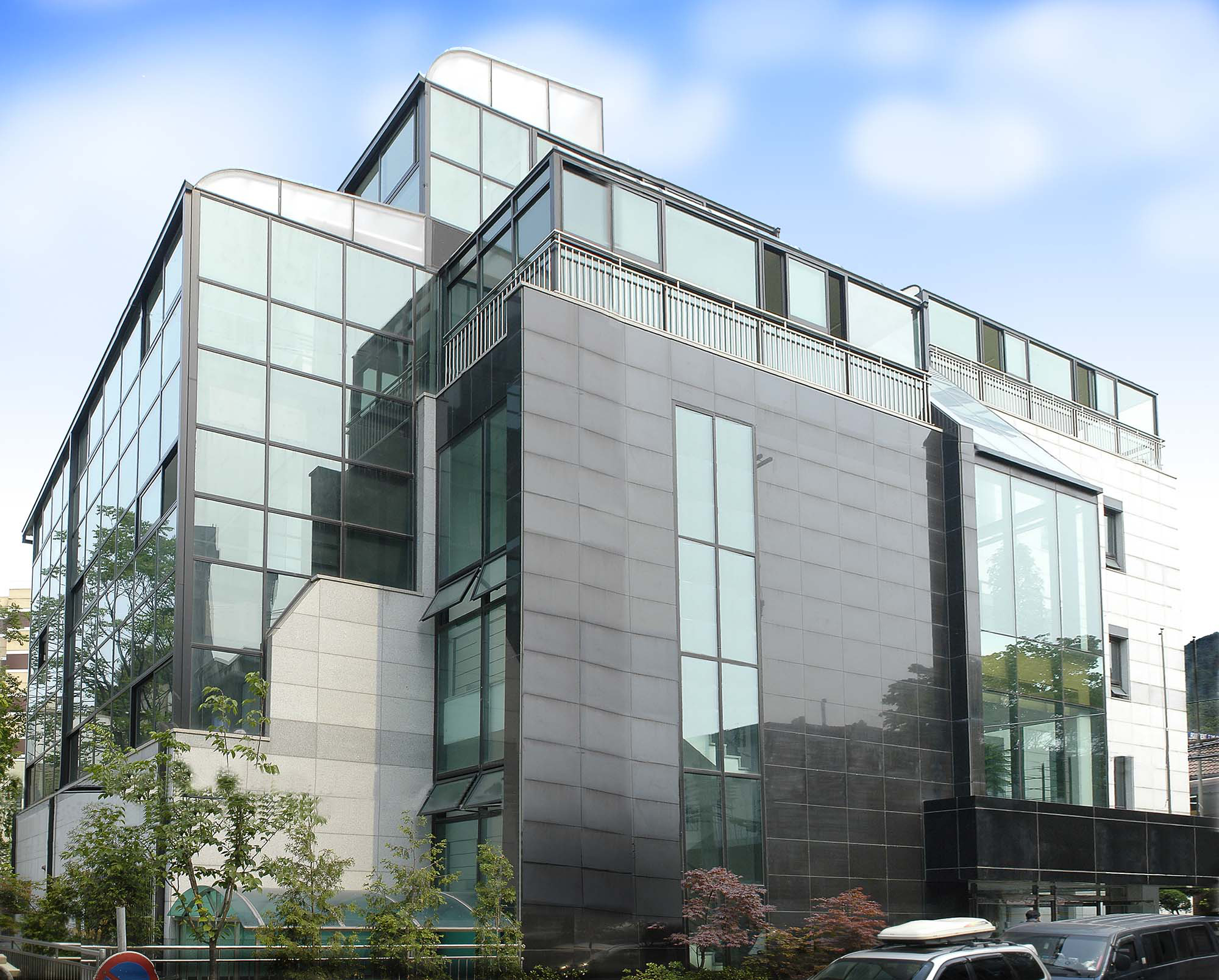 정화예술대학 명동캠퍼스 서울특별시 대한민국, JeongHwa Arts University MyungDong Campus Seoul, Republic of Korea (South Korea)